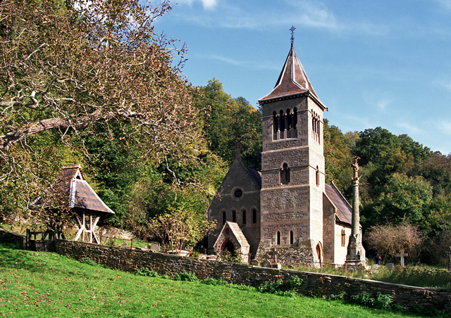 St Margaret's parish church, Welsh Bicknor, Herefordshire, seen from the west. To the right of the tower is the 19th-century churchyard cross.